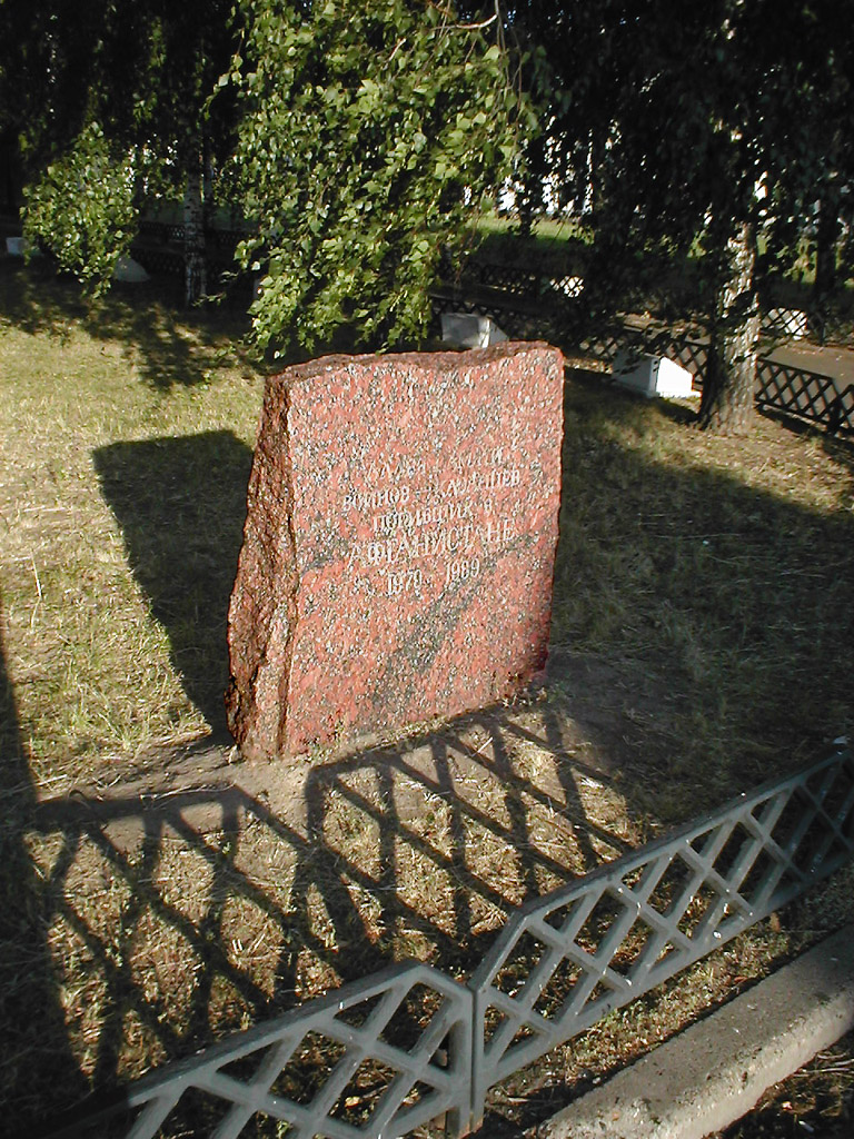 grave stone - temporary monument in order boundary-out soldiers in Kazan